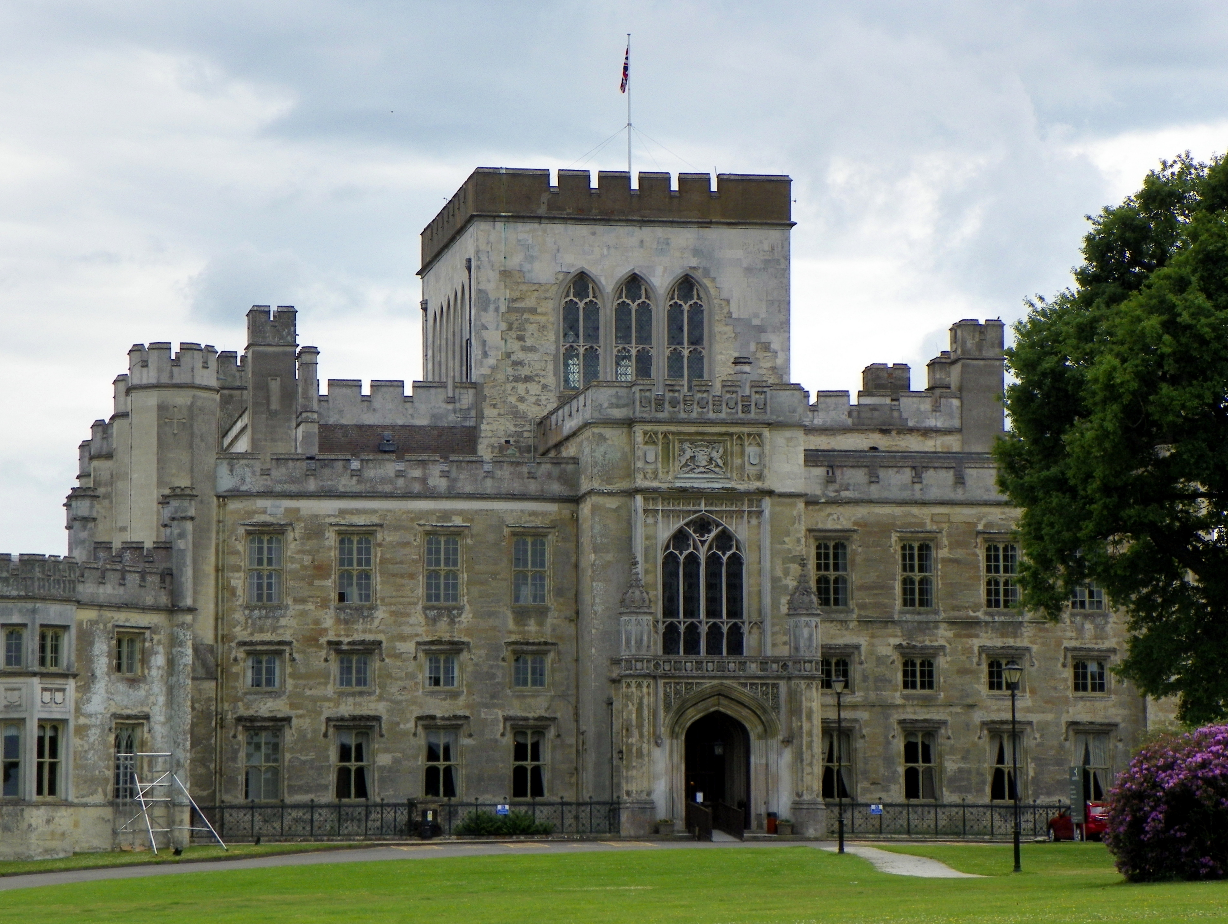 Ashridge House, which houses Ashridge Executive Education (formerly Ashridge Management College and Ashridge Business School), Little Gaddesden, Hertfordshire (Grade I listed building). The building was originally a country house dating to 1808–1825, when it was rebuilt in the Gothic style on the site of a monastery of 1283 that became a royal residence following the dissolution of the monasteries in 1539 and then a private house. It became It became Ashridge Business School in 1959.